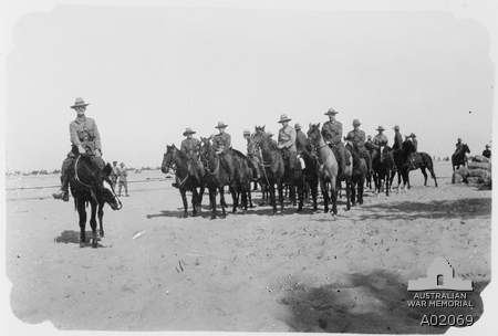 Members of the Auckland Mounted Regiment band leaving camp at El Arish.